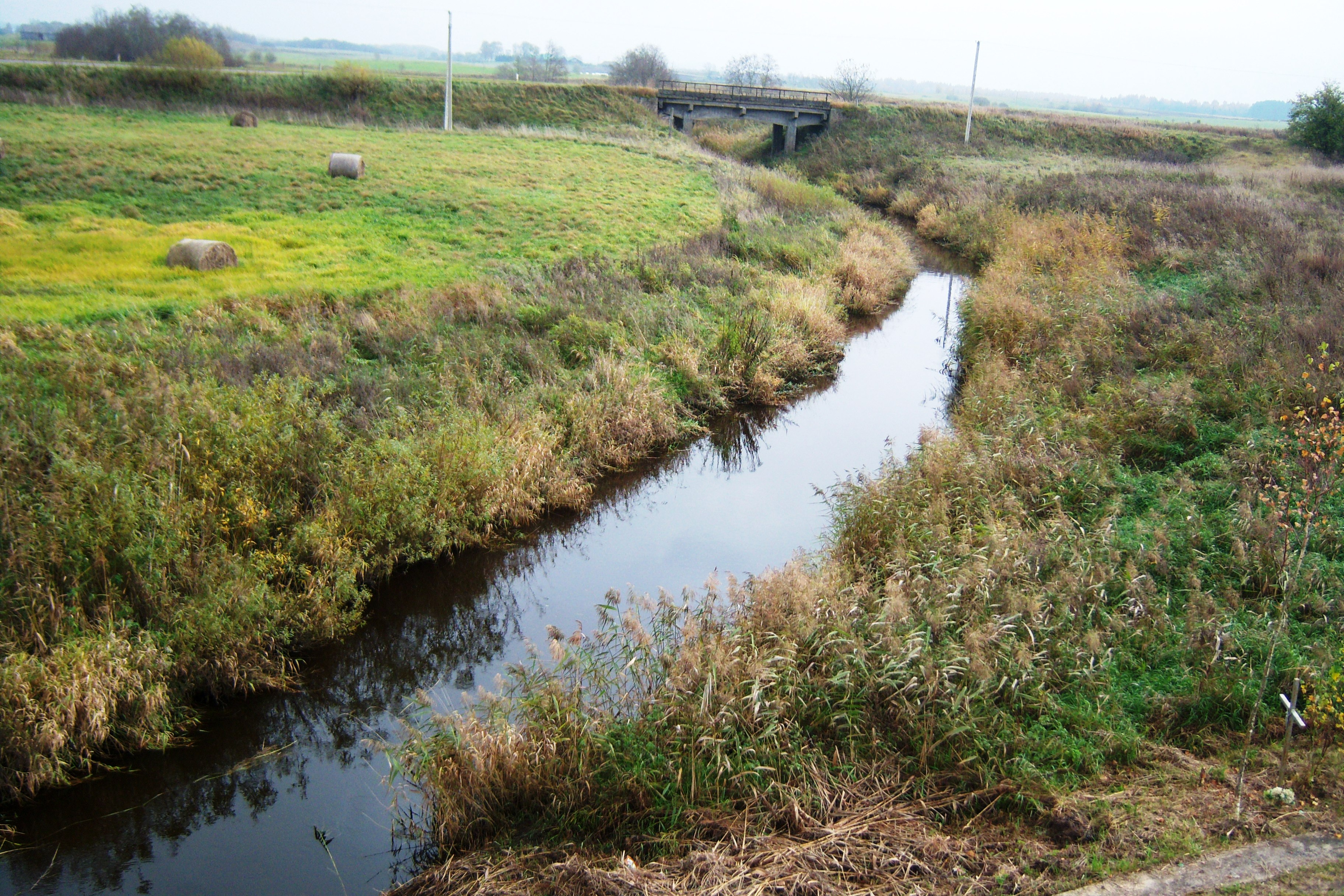 Rešketa River near Varniai, Road KK160, Lithuania